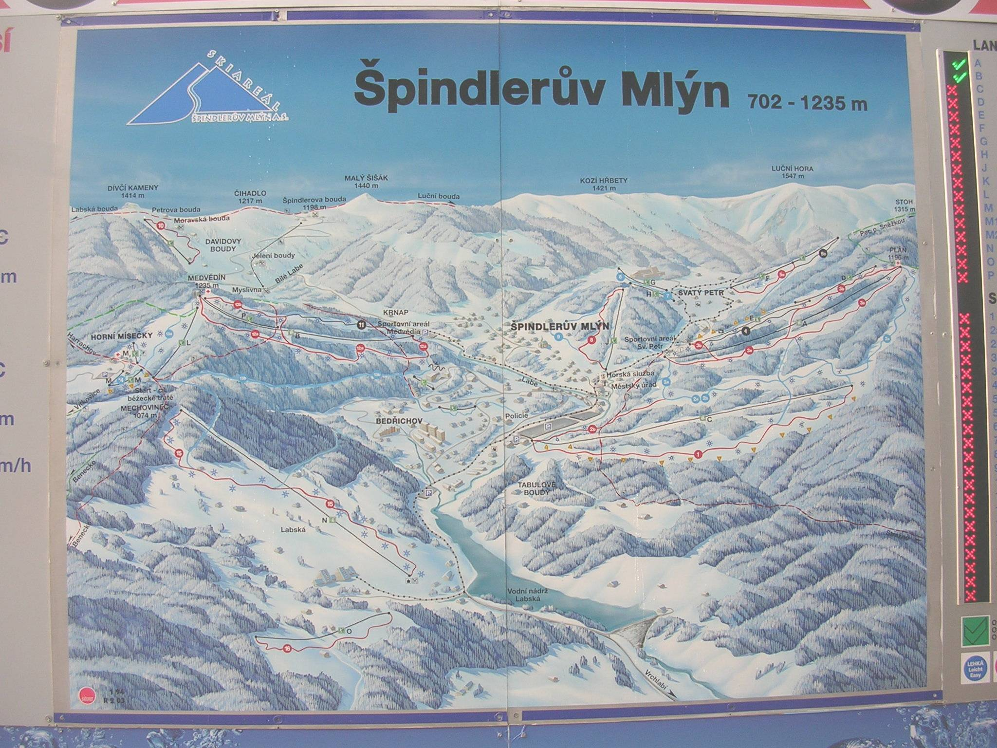 Špindlerův Mlýn, a map of ski areal.